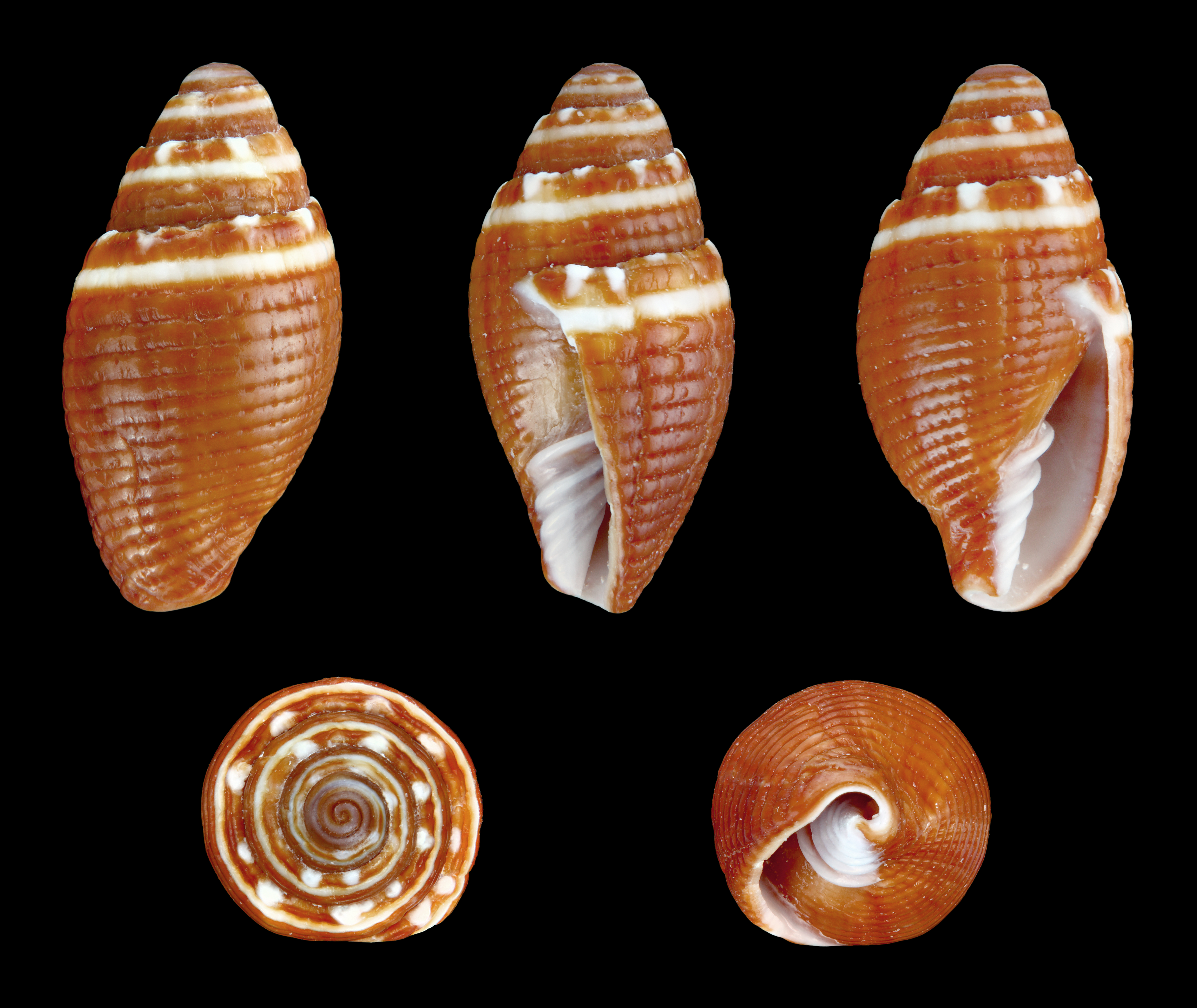 Strigatella coronata (Lamarck, 1811); Coronate Mitre; Length 1.7 cm; Originating from the Artistic Beach Resort, Sipalay, West-Negros, Philippines; Shell of own collection, therefore not geocoded. Dorsal, lateral (right side), ventral, back, and front view.